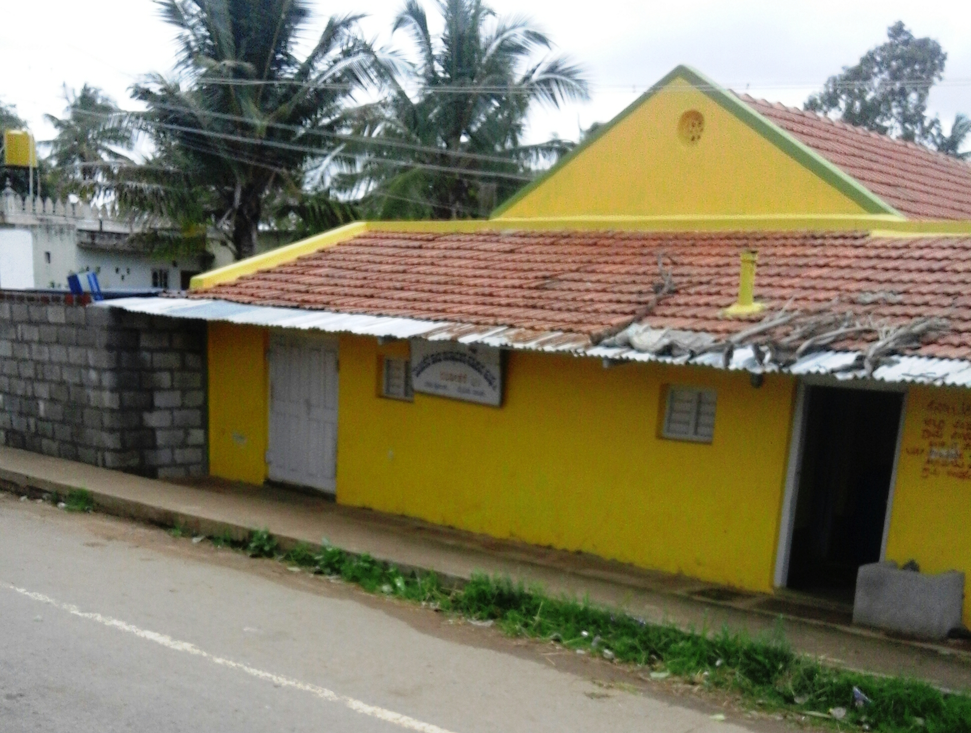 Mysore district, Karnataka state, India